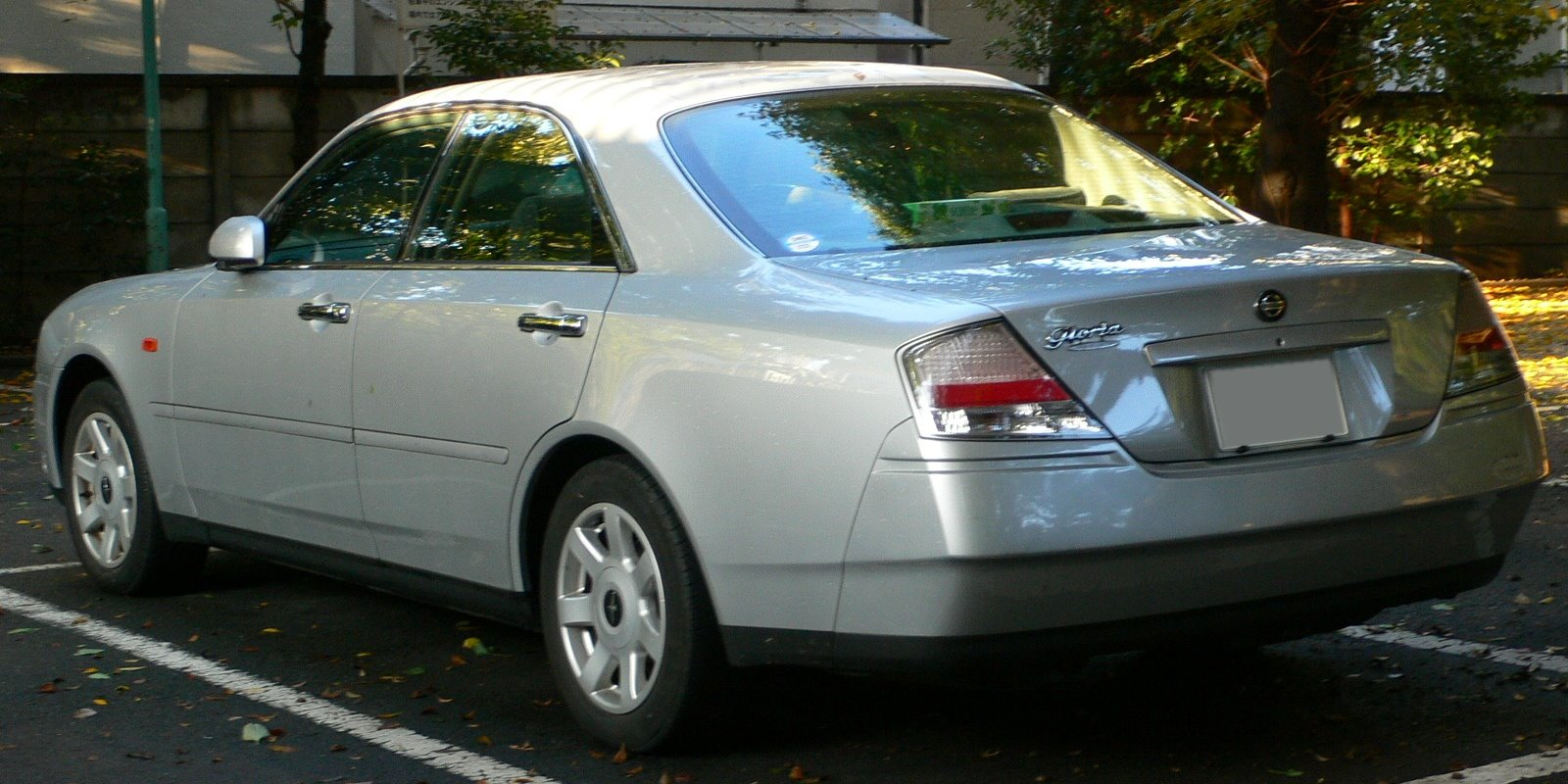 11th generation Nissan Gloria (1999 - 2001)